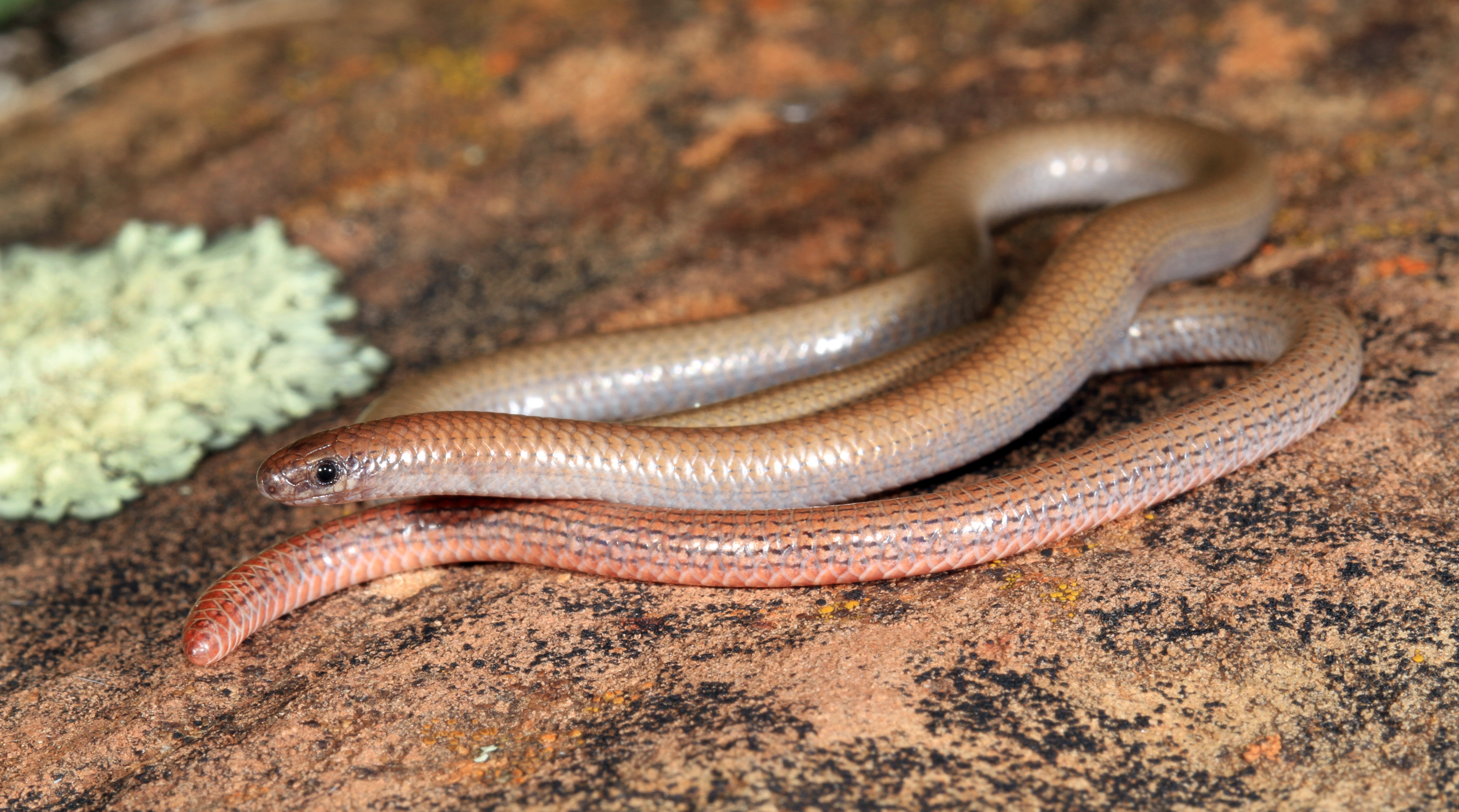 Clare Valley, South Australia.